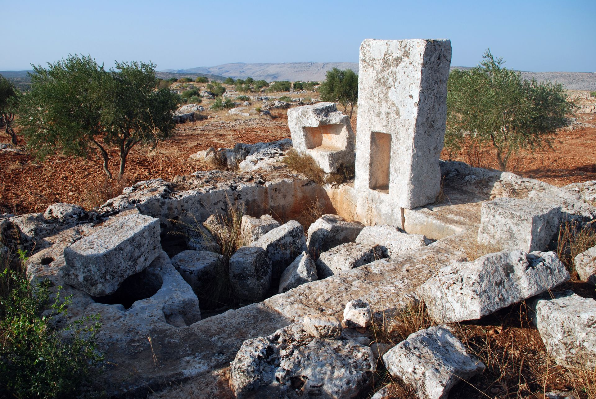 Barisha, dead city in Syria. Oil press